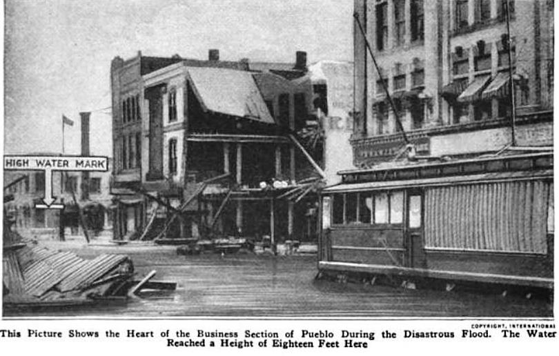 Photograph of the damaged business district of Pueblo, Colorado following the 1921 flood.